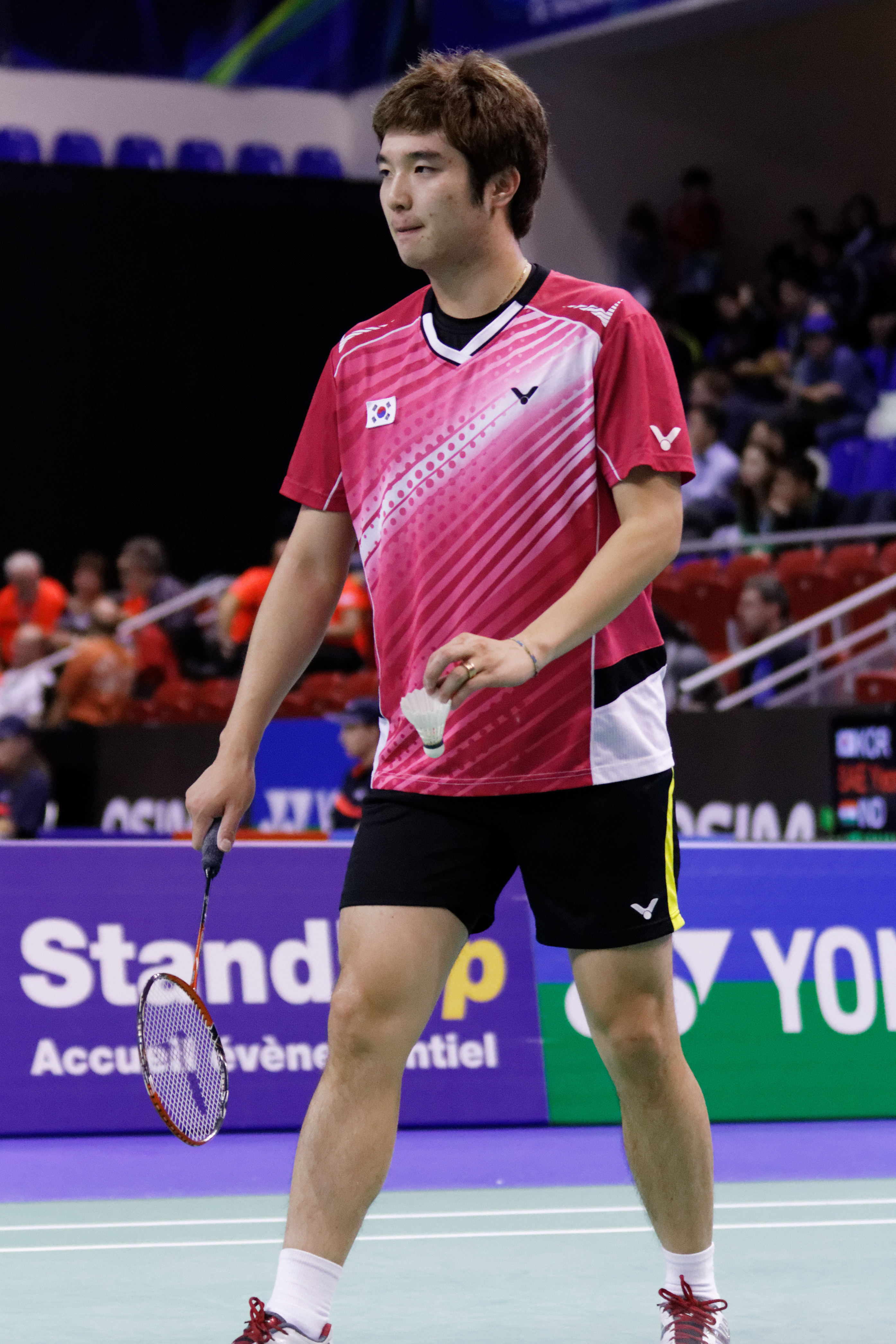 2013 French open. Mixed's doubles eightfinal. Kim Ki-jung and Kim So-young vs Praveen Jordan and Vita Marissa.